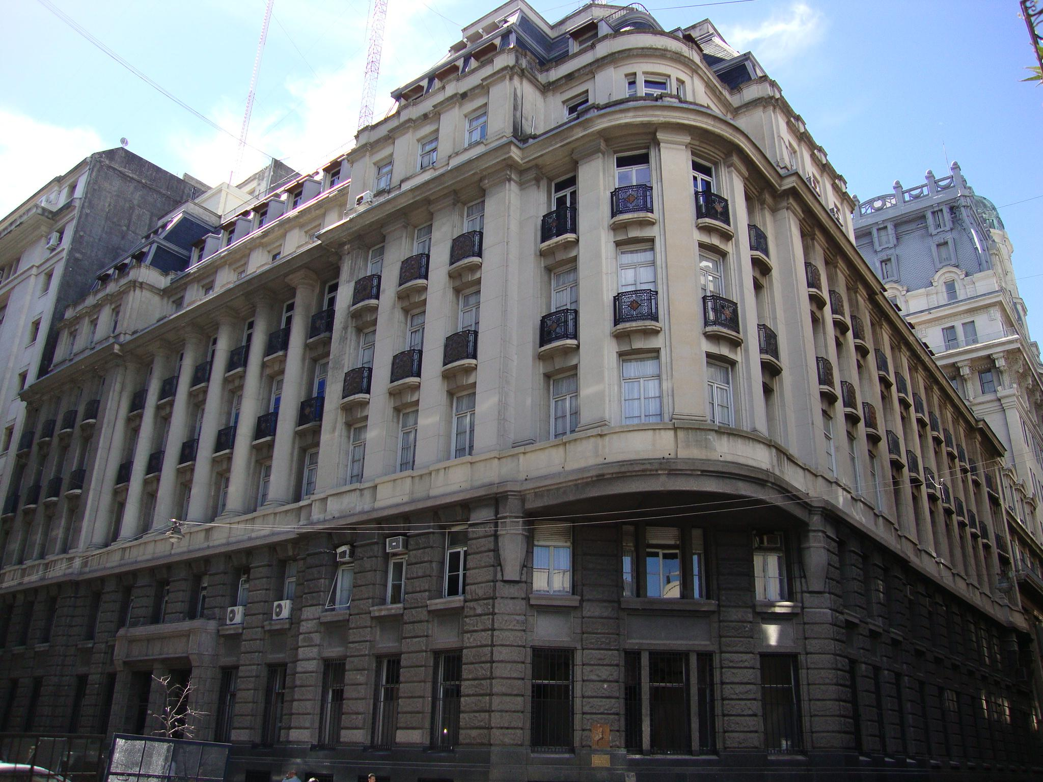 The former CHADE (Spanigh-Argentine Electric Company) headquaters, designed by Gunther Müller and Norbert Maillart, built by the GEOPÉ firm, and completed in 1915. Its currently an annex of the Economy Ministry.